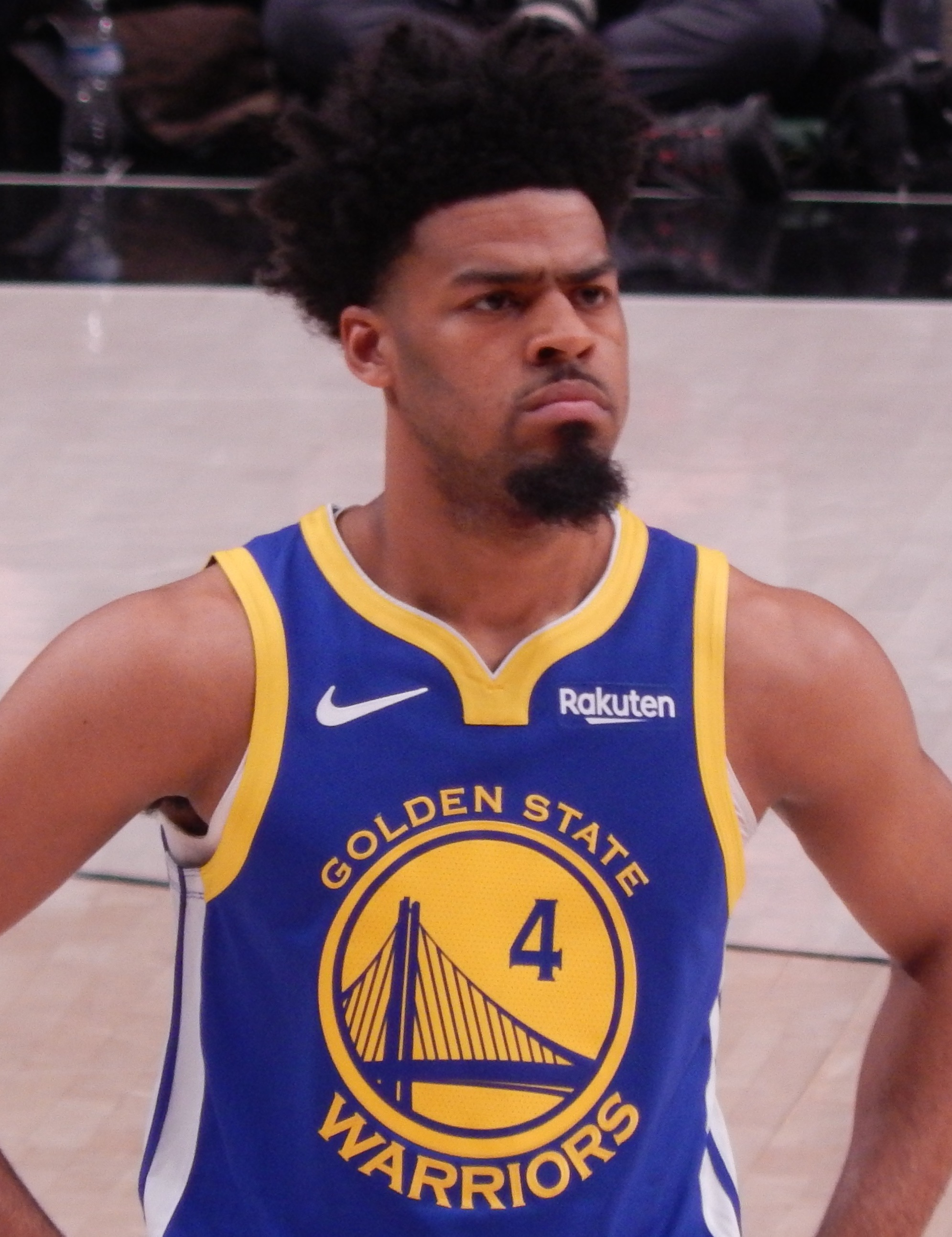 Quinn Cook #4 of the Golden State Warriors waits for play to resume in a game against the Portland Trail Blazers on May 18, 2019 at Moda Center in Portland, Oregon.